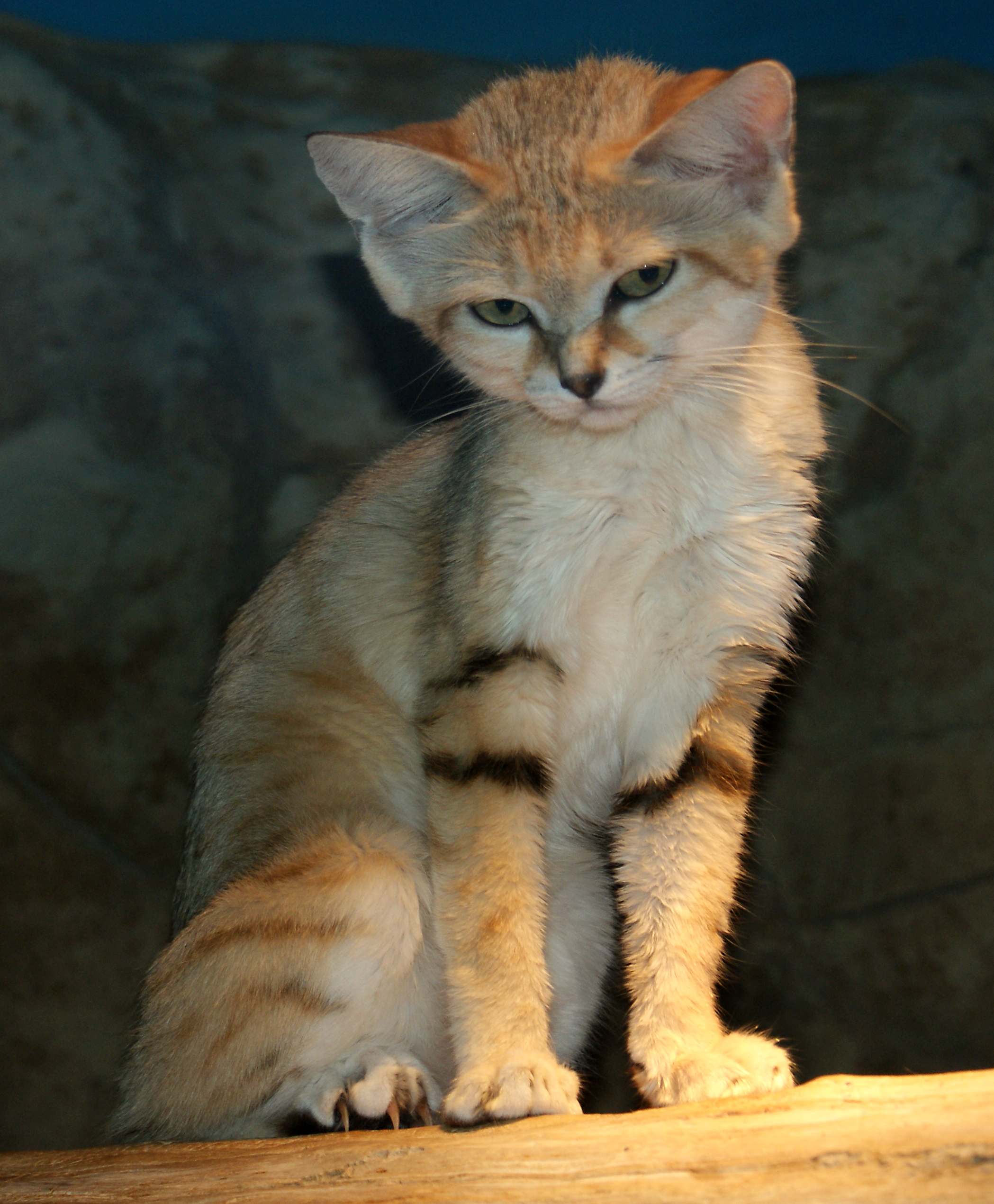 Sand cat (Felis margarita)